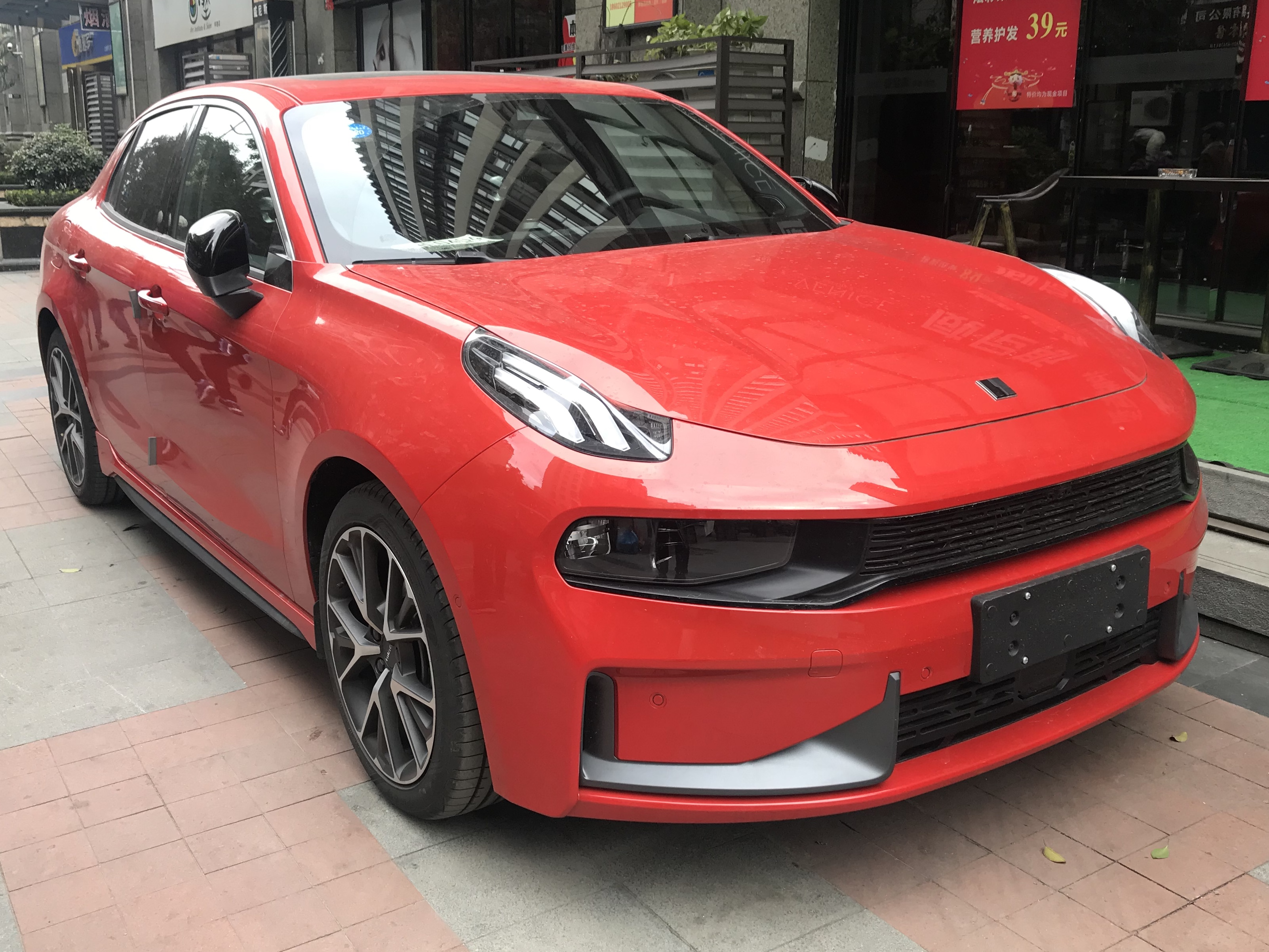 Lynk & Co 03 front